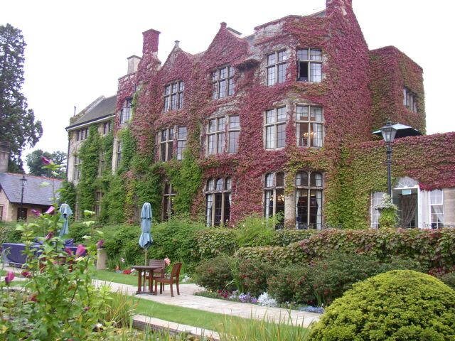 Pennyhill Park Hotel and Spa The Pennyhill Park hotel and Spa is a top class country hotel set in 123 acres of grounds, with both formal and informal gardens. Located between Camberley and Bagshot in Surrey, in recent years it has played host to summits between Tony Blair and (ex) President Clinton, and was also the home of the England Rugby team 2003.